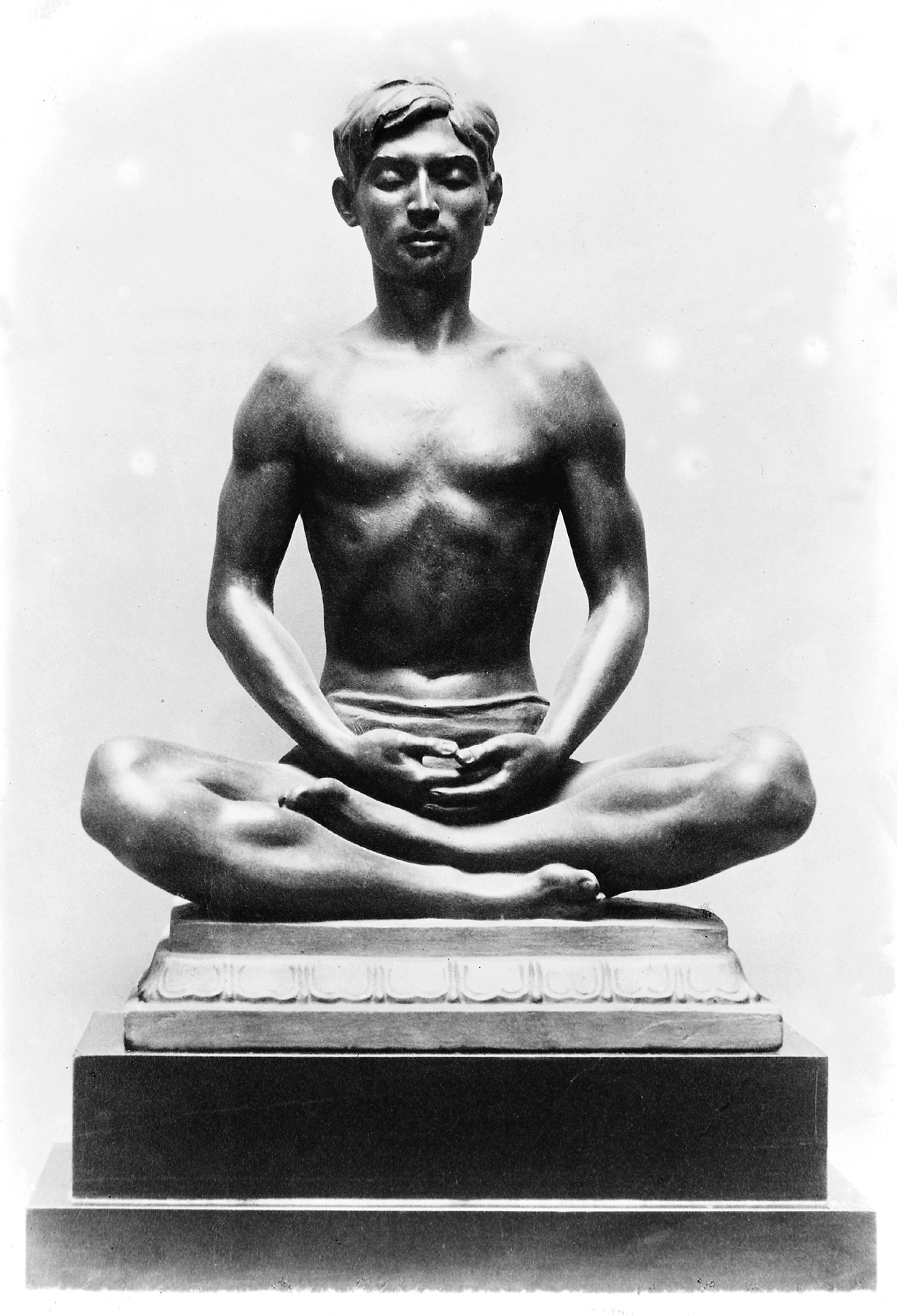 Bronze figure of Kashmiri in Meditation by Malvina Hoffman. Filed Museum Chicago Asian Collection Keywords: Malvina Hoffman; Meditation